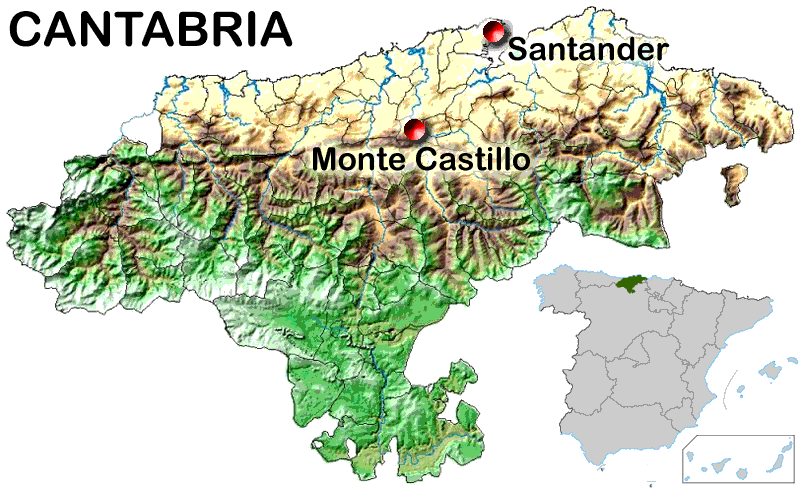 Situation of paleolithic ensemble of «Monte Castillo», in the autonomous community of Cantabria (Spain)